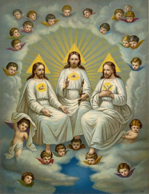 Fridolin Leiber - The Holy Trinity. Note that the iconography of "triplets" may not be accepted by all modern Christian groups. (The Holy Trinity is more usually depicted with God the Father as an elder, God the Son as Jesus Christ, and the Holy Spirit as a divine Dove, as in Fridolin Leiber's other work File:Fridolin Leiber - Pater noster.jpg .) The persons of the Trinity are identified by symbols on their chests: The Son has a lamb (agnus dei), the Father an Eye of Providence, and the Spirit a dove.